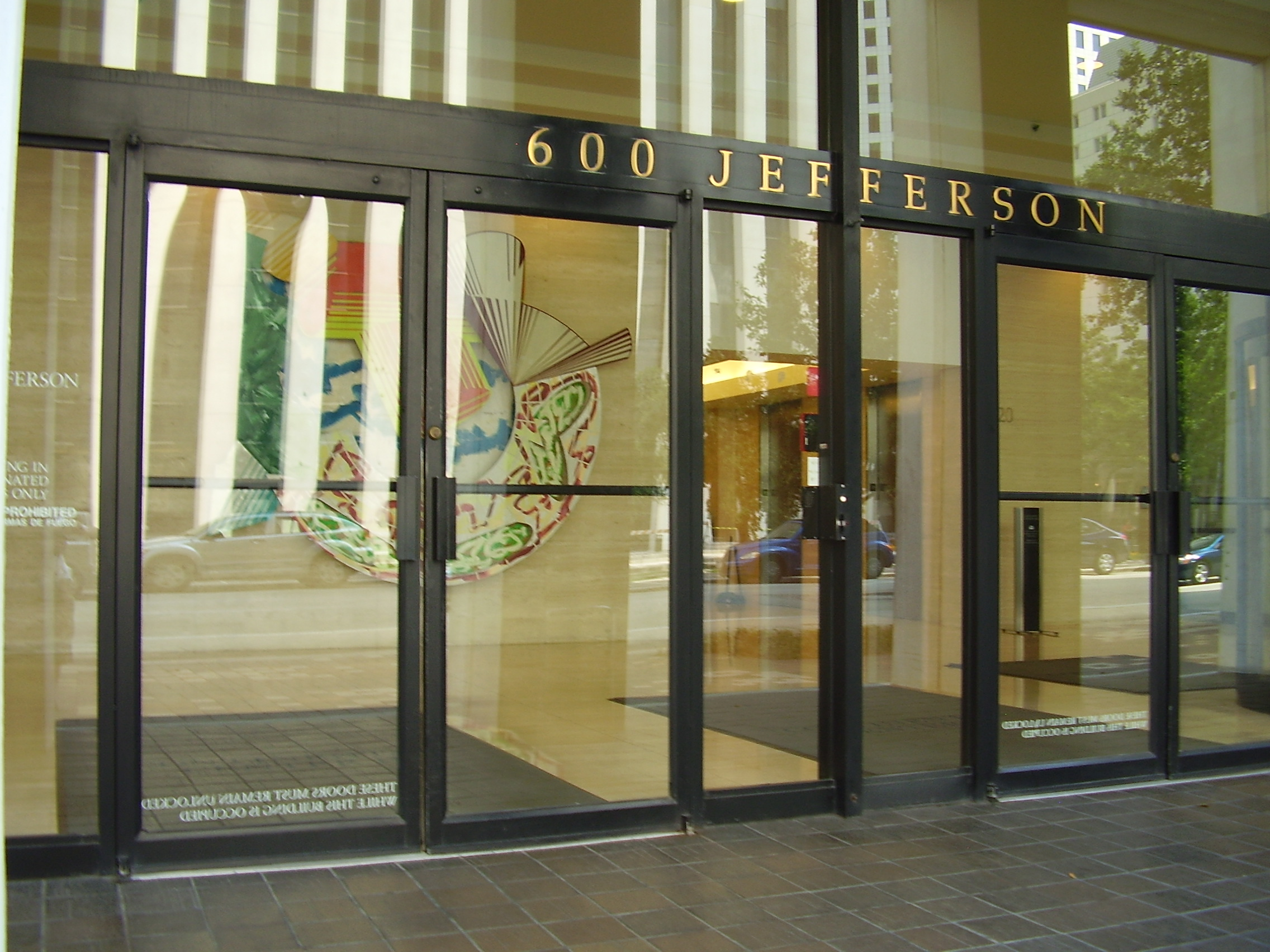 600 Jefferson (Continental Center II) - Houses the administrative offices of the Houston Fire Department